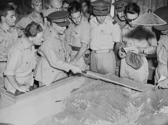 Port Moresby, New Guinea. 1943-09-13. General Sir Thomas Blamey GBE, KCB, CMG, DSO, ED, Commander In Chief, Allied Land Forces, South West Pacific Area, Giving a press conference at Headquarters, New Guinea Force. Shown: Mr H. Mishael, Melbourne "Age", Sydney Morning Herald (1); General Sir Thomas Blamey (2); Mr Dean Schedler, Associated Press (3); Mr Haydon Lennard, Australian Broadcasting Commission (4); Mr F. Robinson, International News Service (5); Mr J. Henry, Reuters (6); Mr F. Peterson, Sydney Sun (7); Mr H. Dash, Sydney Telegraph (8); Mr Brydon Taves, United Press (9); Mr Yates Mcdaniel, Associated Press (10).